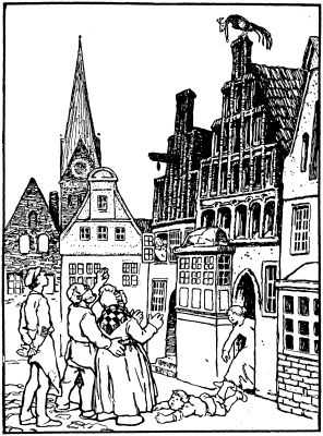 Illustration by Otto Ubbelohde to the fairy tale The Juniper Tree